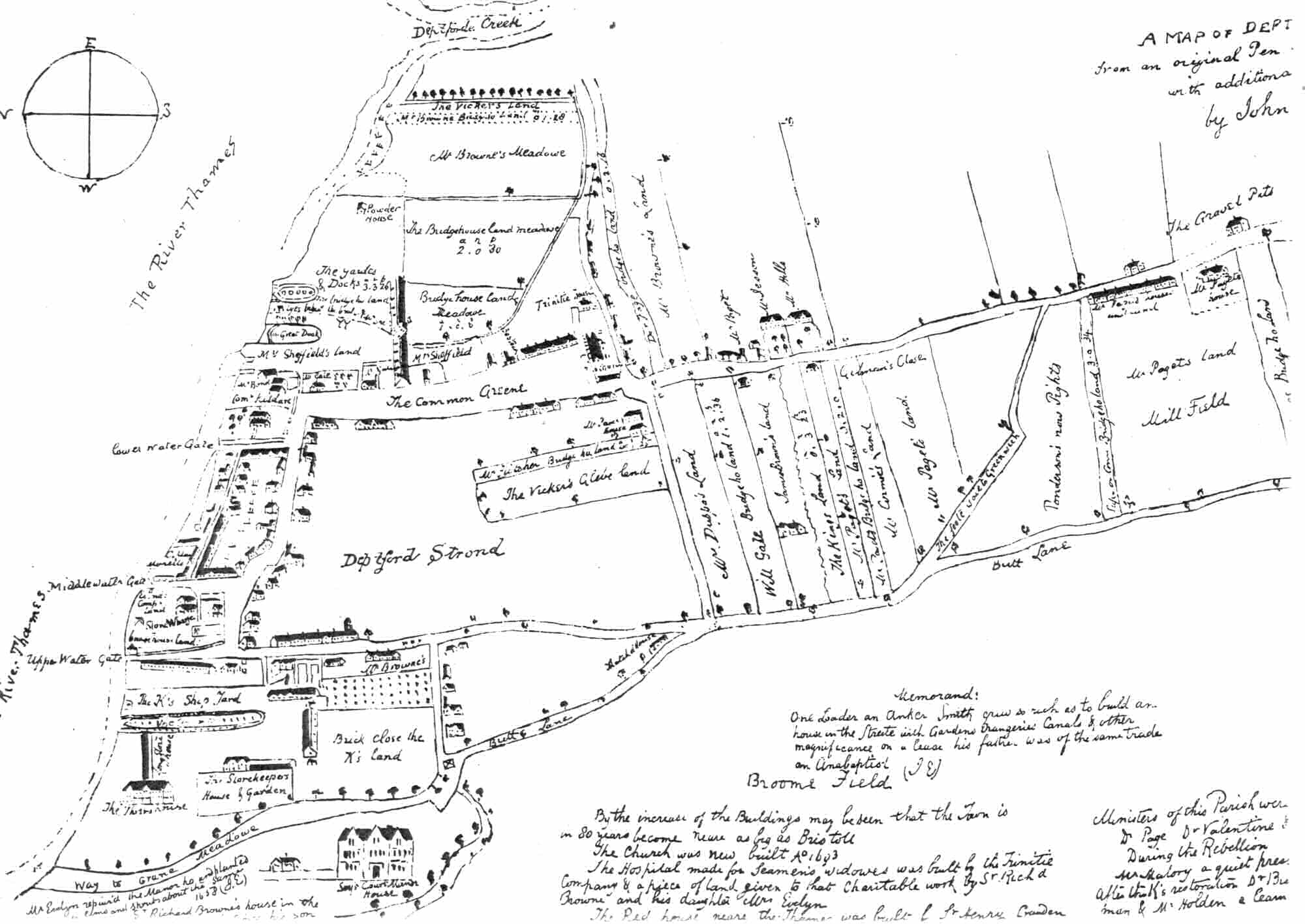 Map of Deptford Strond or West Greenwich belonging to John Evelyn, 1623